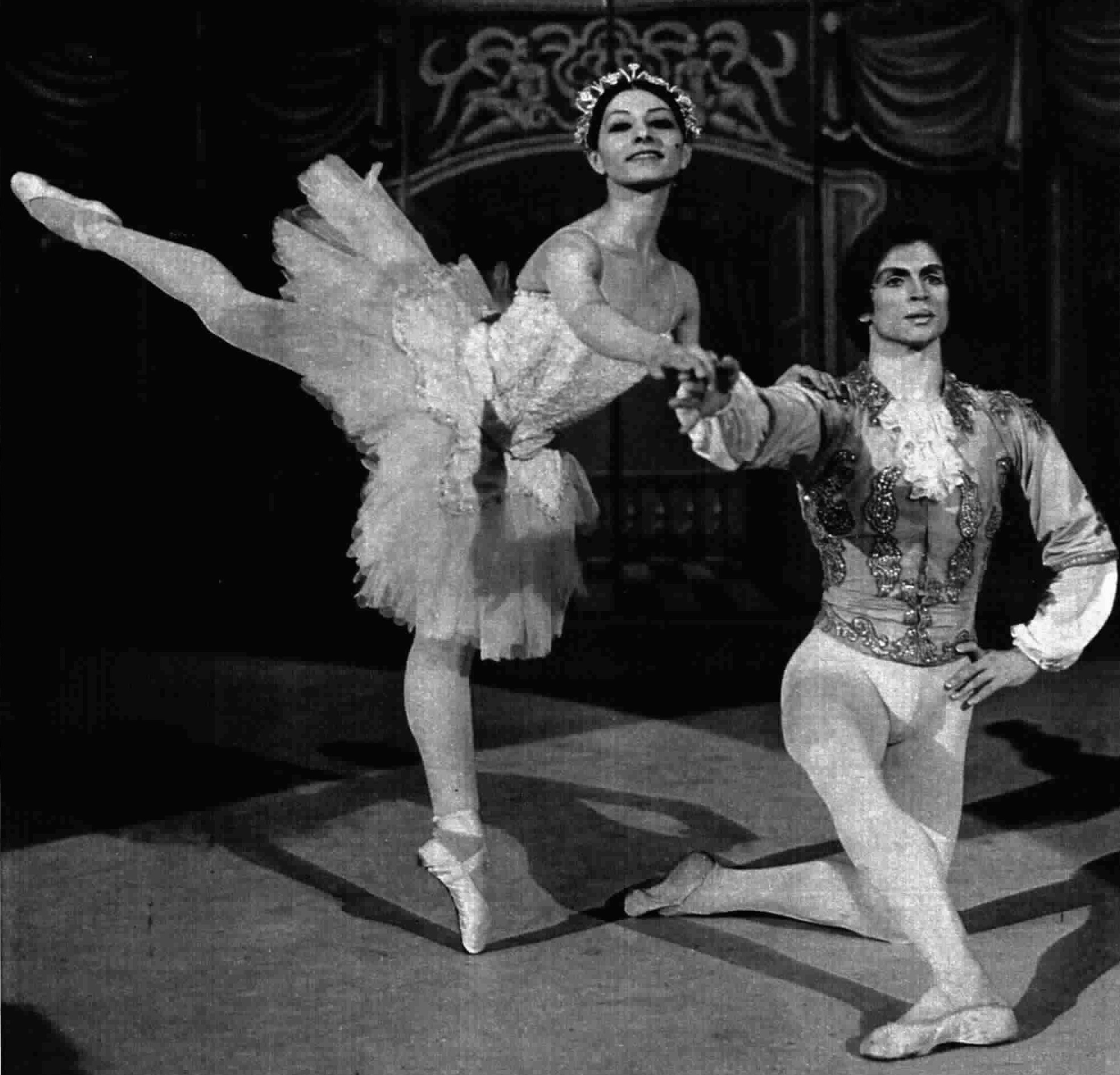 dancers Liliana Cosi and Rudolf Nureyev, Italian show at Teatro 10, Rome.